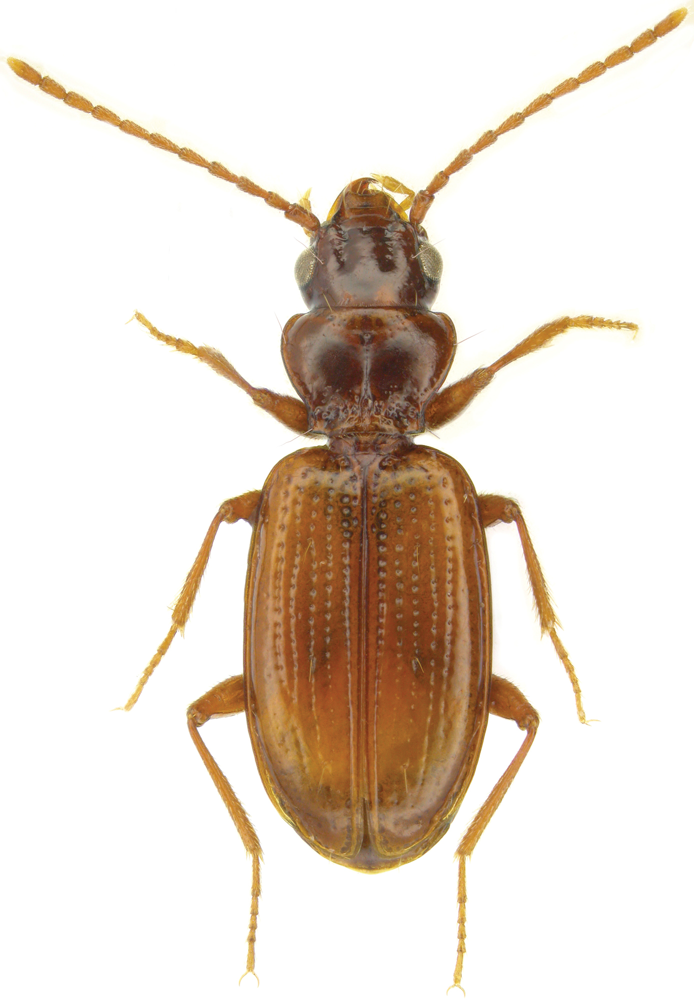 Phrypeus rickseckeri (Hayward). Thomas Casey is well known to North American coleopterists for the numerous species he proposed that are considered invalid today. His extremely rigid species concept allowed almost no morphological variation. He was, however, more successful at the generic level and many of his taxa are still recognized as valid today. One of these is Phrypeus which he proposed for a small, peculiar bembidiine species living along river banks in the coastal region of western North America. Associated with the subtribe Bembidiina for a long time, recent molecular analyses have revealed that the species is not closely related to that group.